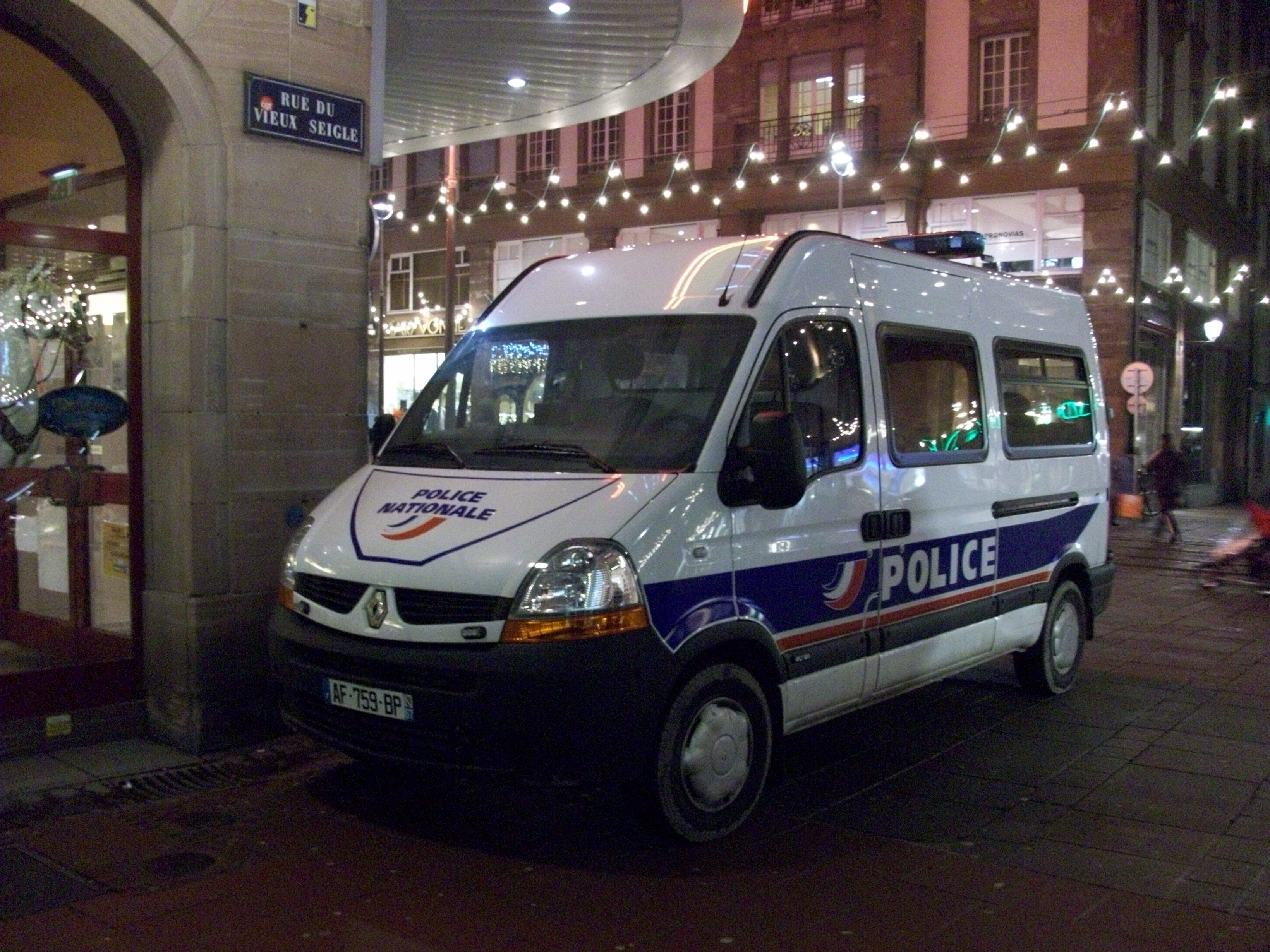 Renault master from the french police in Strasbourg